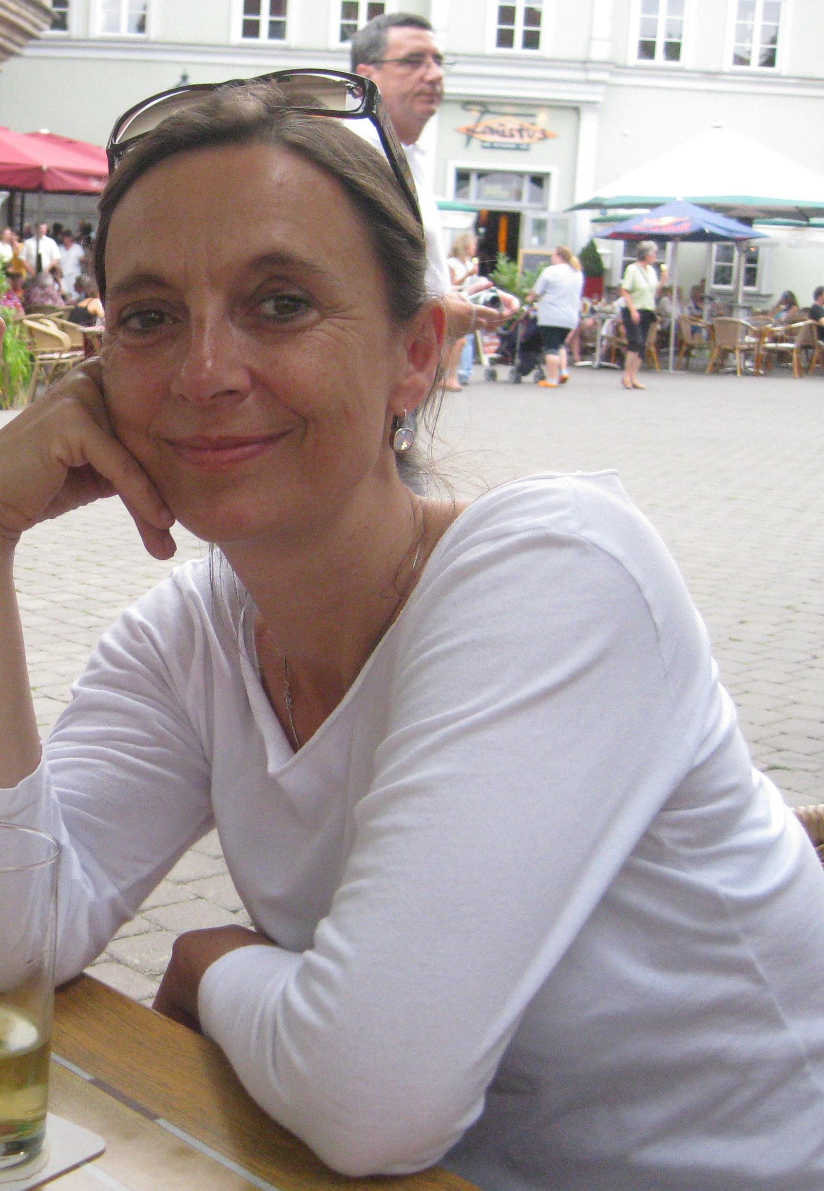 German filmmaker/director Petra Tschörtner, 2009, picture taken in Erfurt, Thuringia